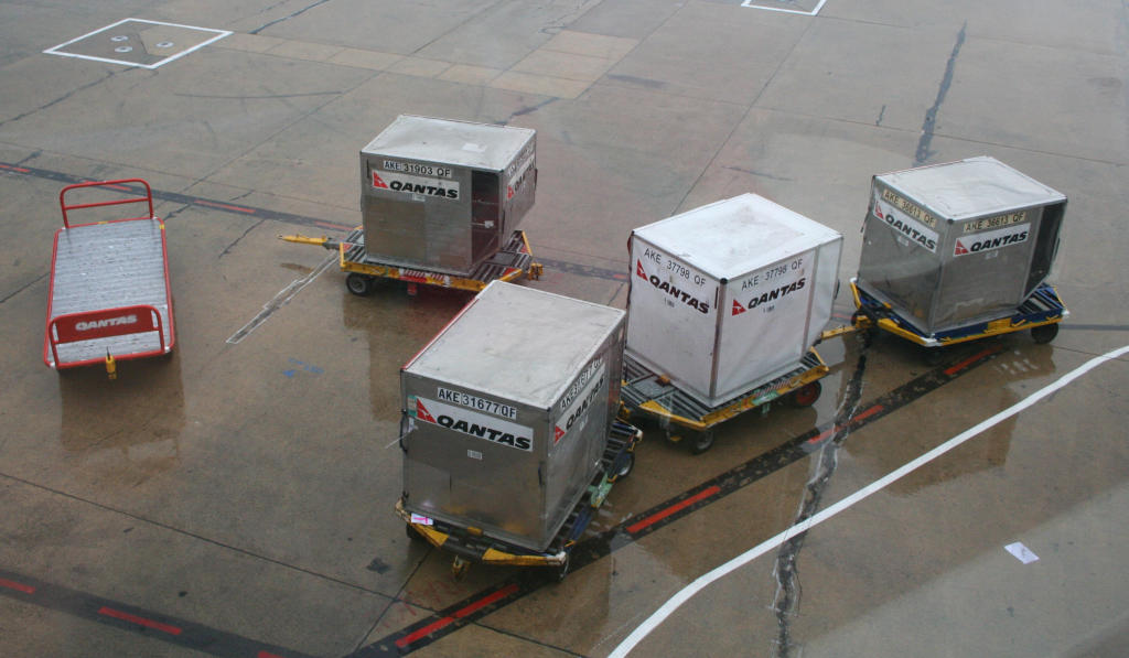 Qantas LD-3 air freight containers